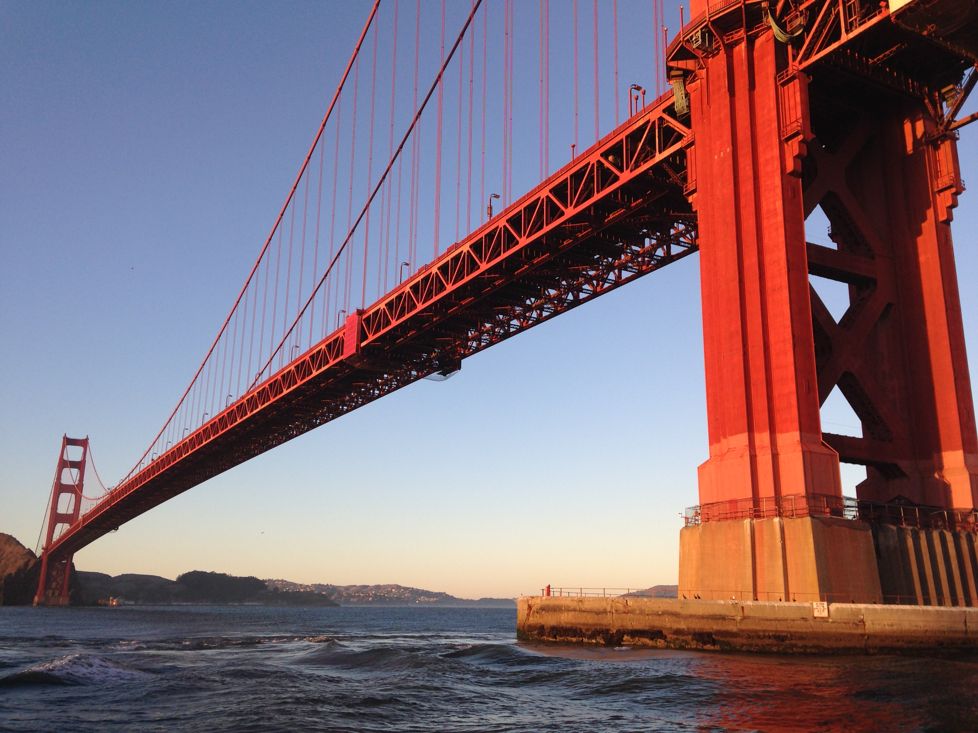 Sailing below GGB